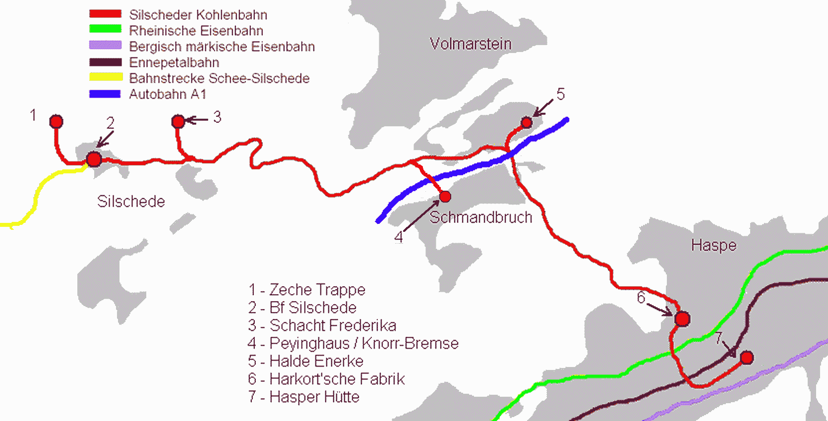 Map of Schlebusch-Harkorter Kohlenbahn (Silscheder Kohlenbahn)